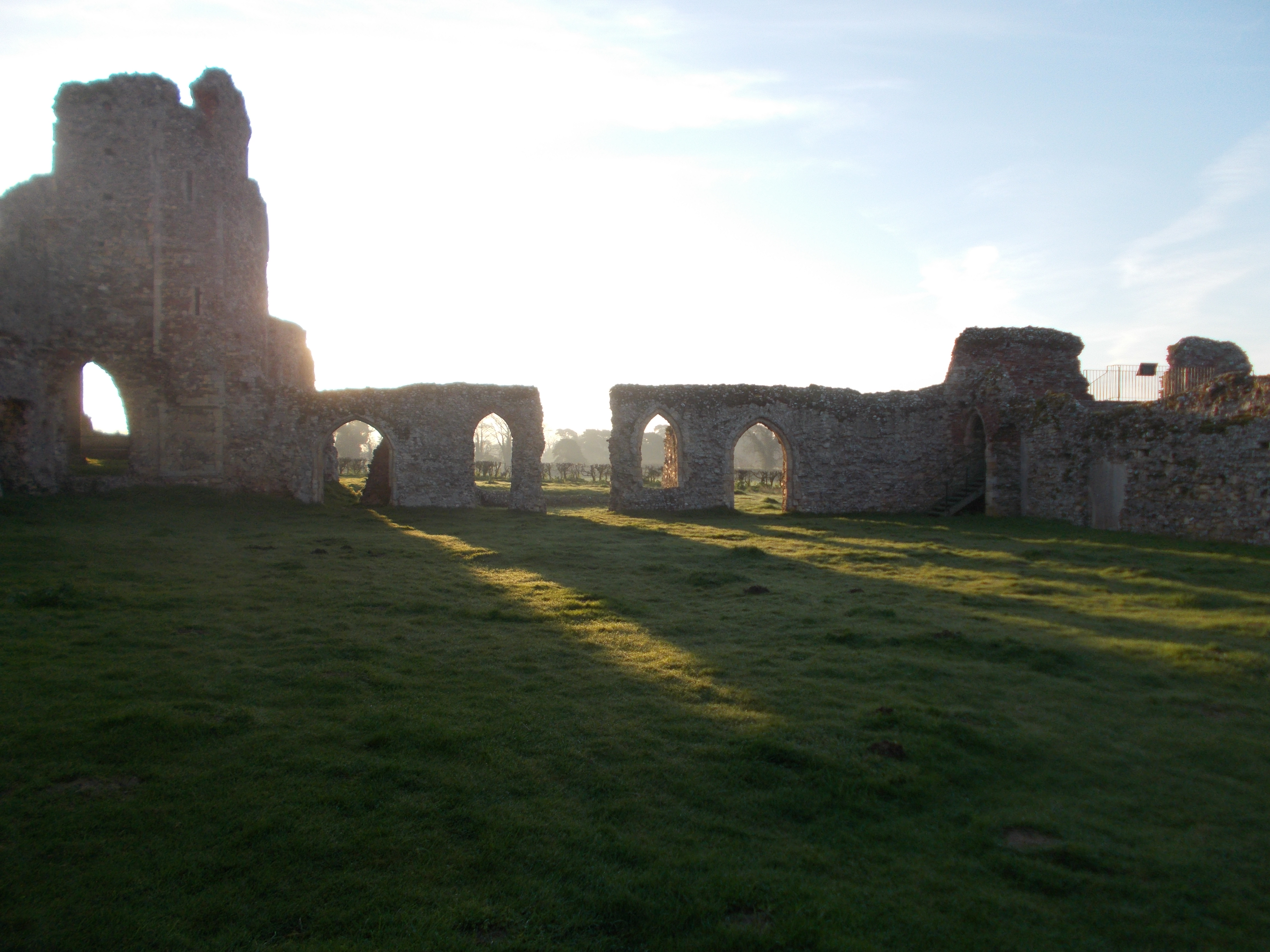 Leiston Abbey cloister garth at dawn, March 2018